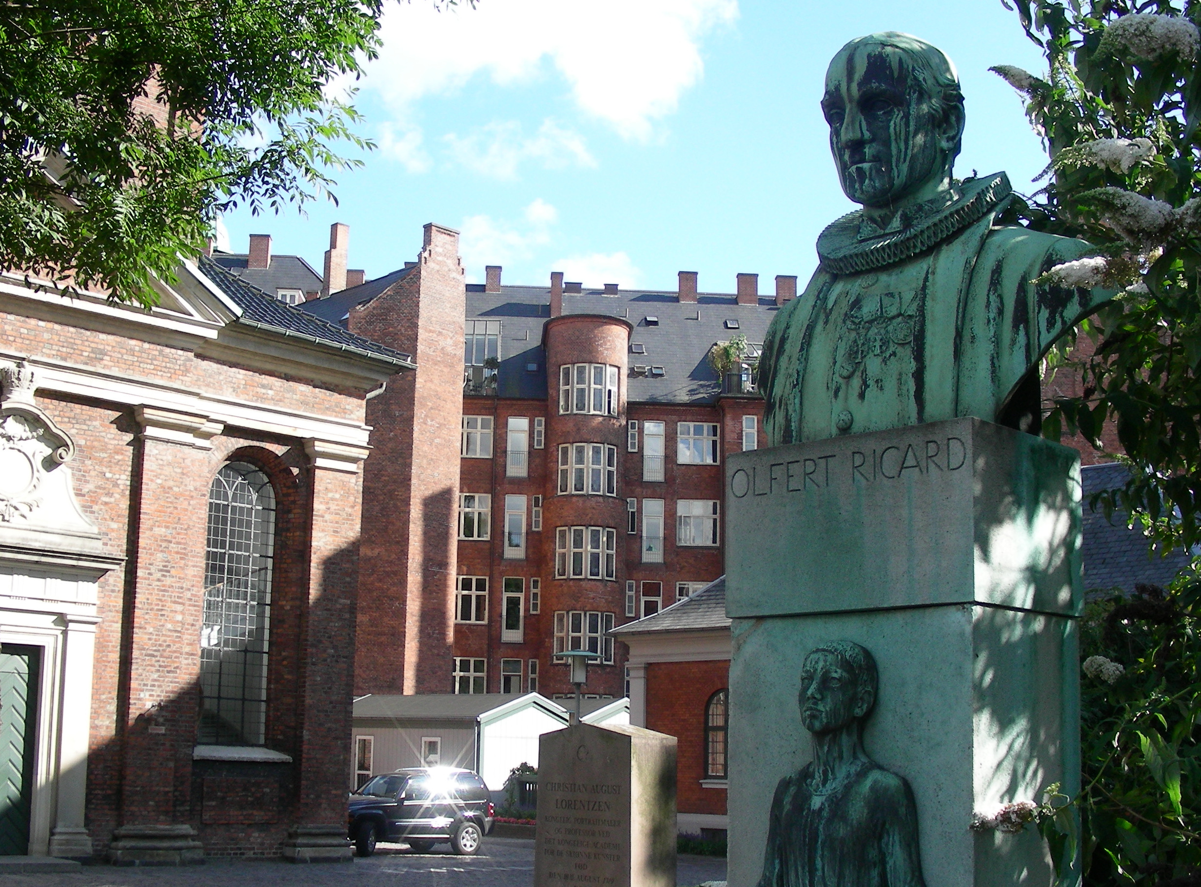 Garnisons Kirke, Copenhagen, Denmark. Memorial for Olfert Ricard, the church's most famous priest. 1930 by Axel Poulsen (1887-1972)